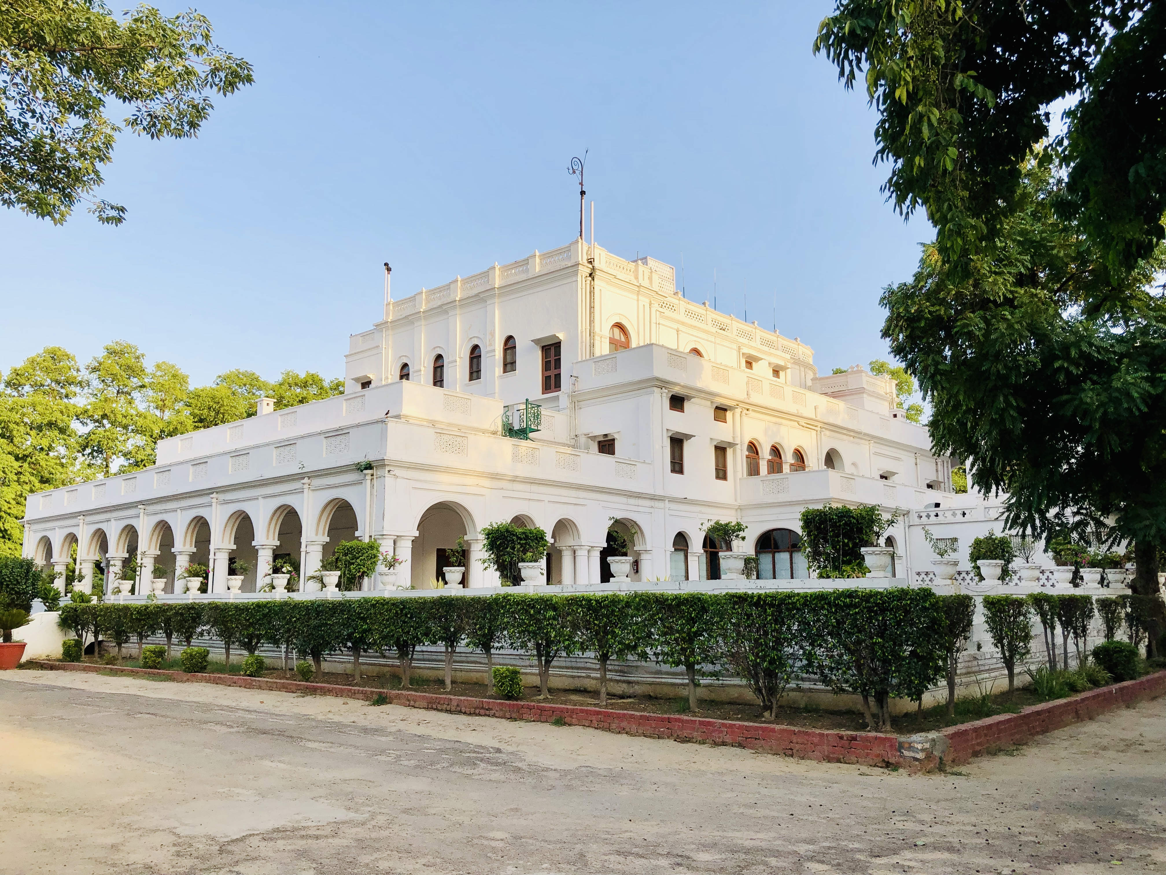 Now part of the Neemrana Group of hotels